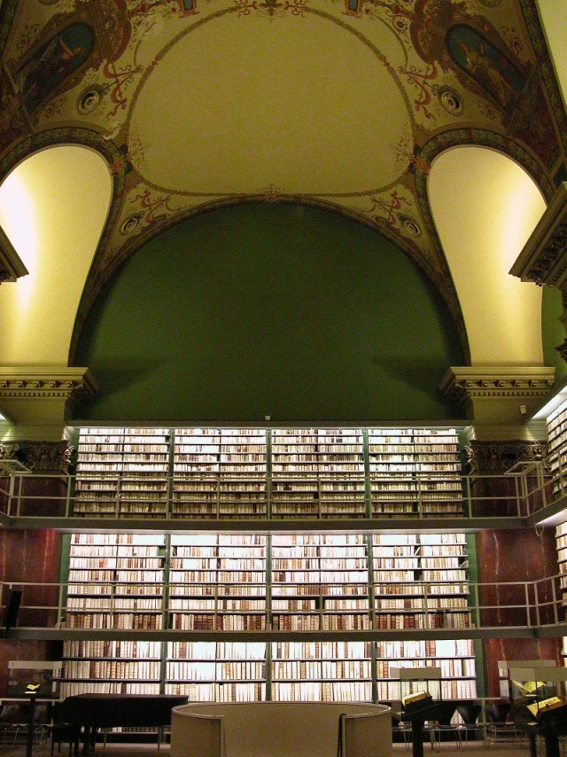 Wolfenbüttel, Germany: Inside Herzog August Library.